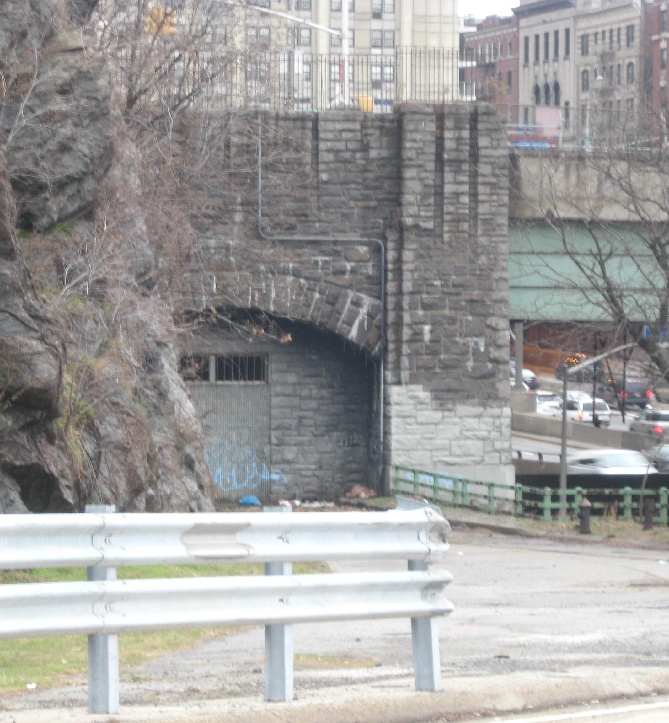 Looking northwest at closed eastern portal of en:178th Street Tunnel on a cloudy midday. See File:TMX apartments jeh.JPG for the entrenched road that replaced the tunnels.